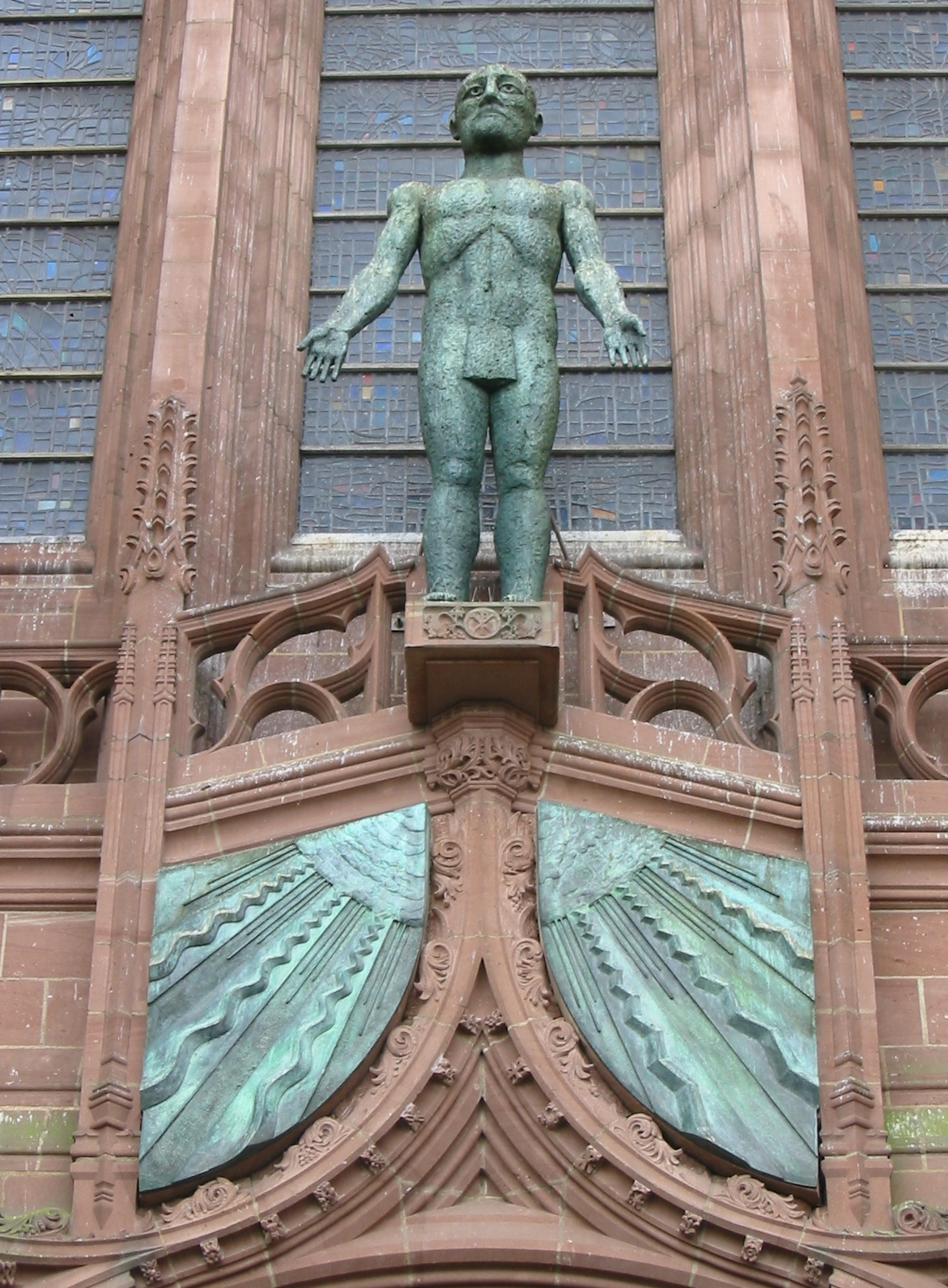 Liverpool